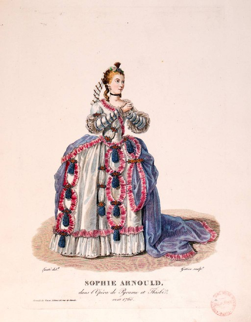 Sophie Arnould in the opera Pyrame et Thisbé